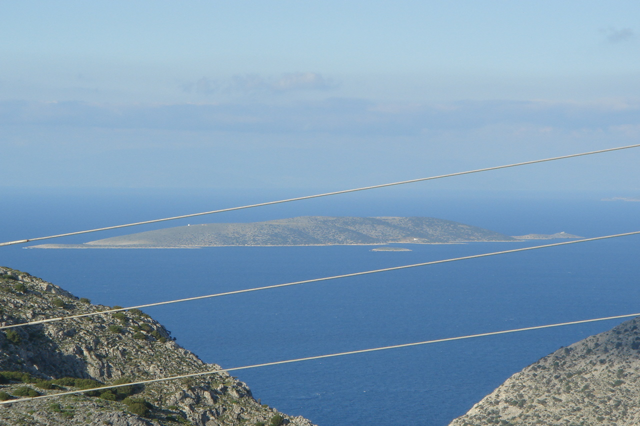 Kalolimnos Islet (the small islet infront is Prasonisi), photo taken from Kalymnos